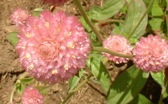 globe amaranth (Gomphrena sp.)